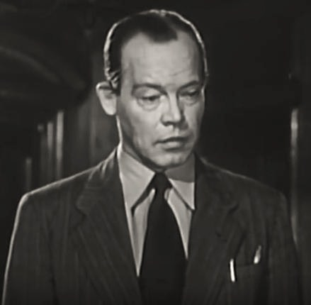 Myron McCormick in Jigsaw - cropped screenshot